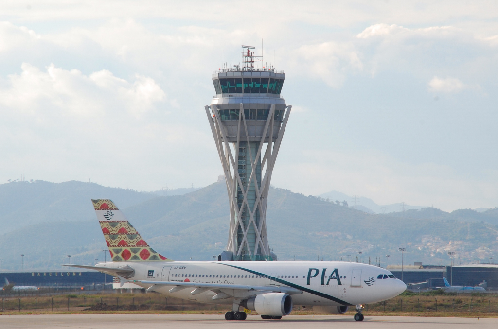 1st flight Lahore-Barcelona of Pakistan International Airlines at BCN Airport.